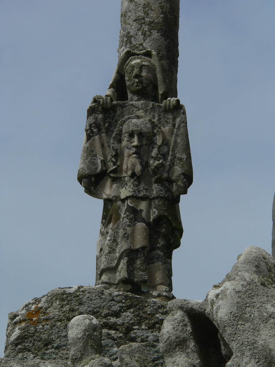 Calvaire in Notre Dame de Tronoën; Brittany, France, Veil of Veronica